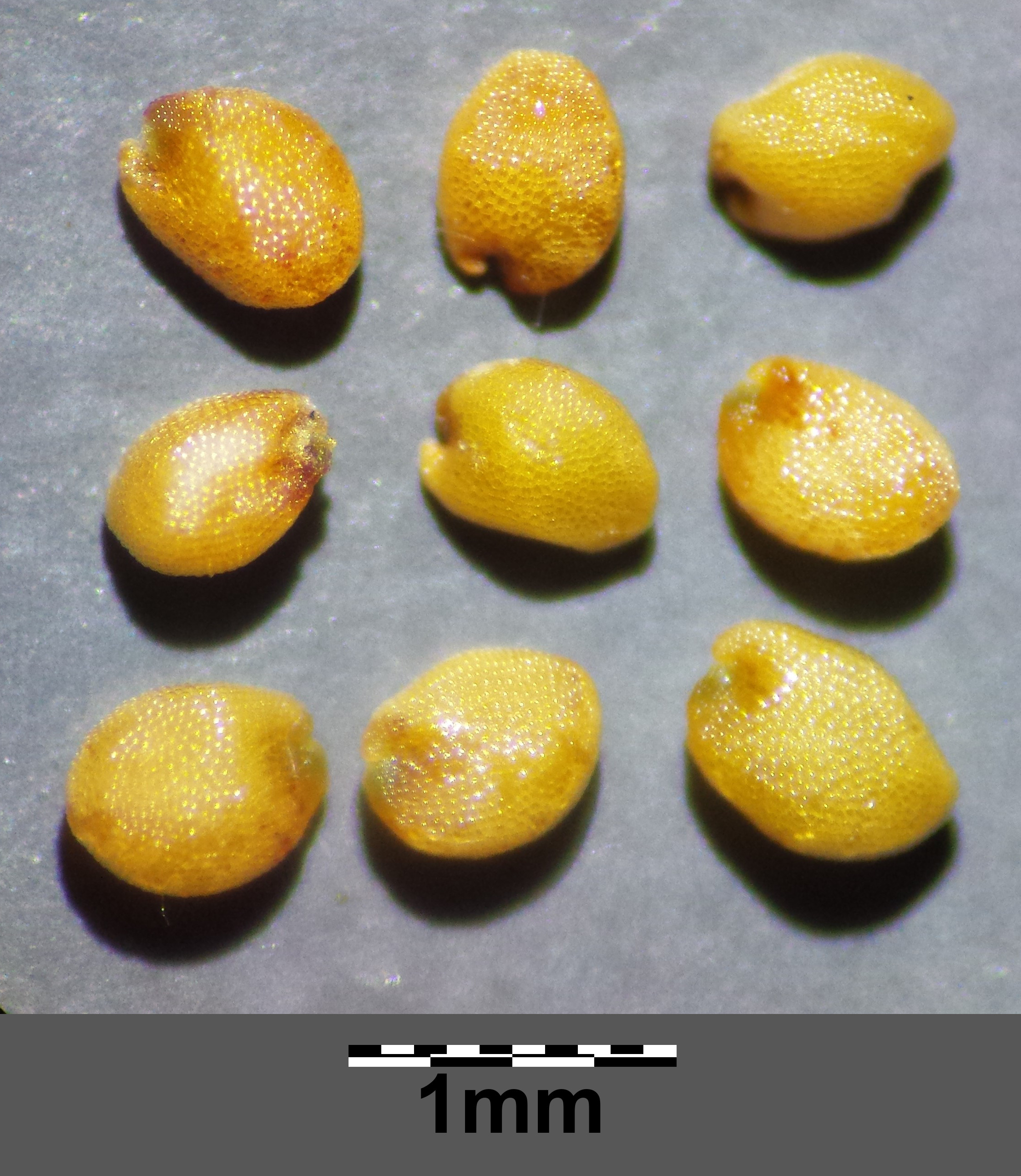 Seeds Taxonym: Rorippa palustris ss Fischer et al. EfÖLS 2008 ISBN 978-3-85474-187-9 Location: Rudmannser Teich, district Zwettl, Lower Austria - ca. 580 m a.s.l. Habitat: wet meadows